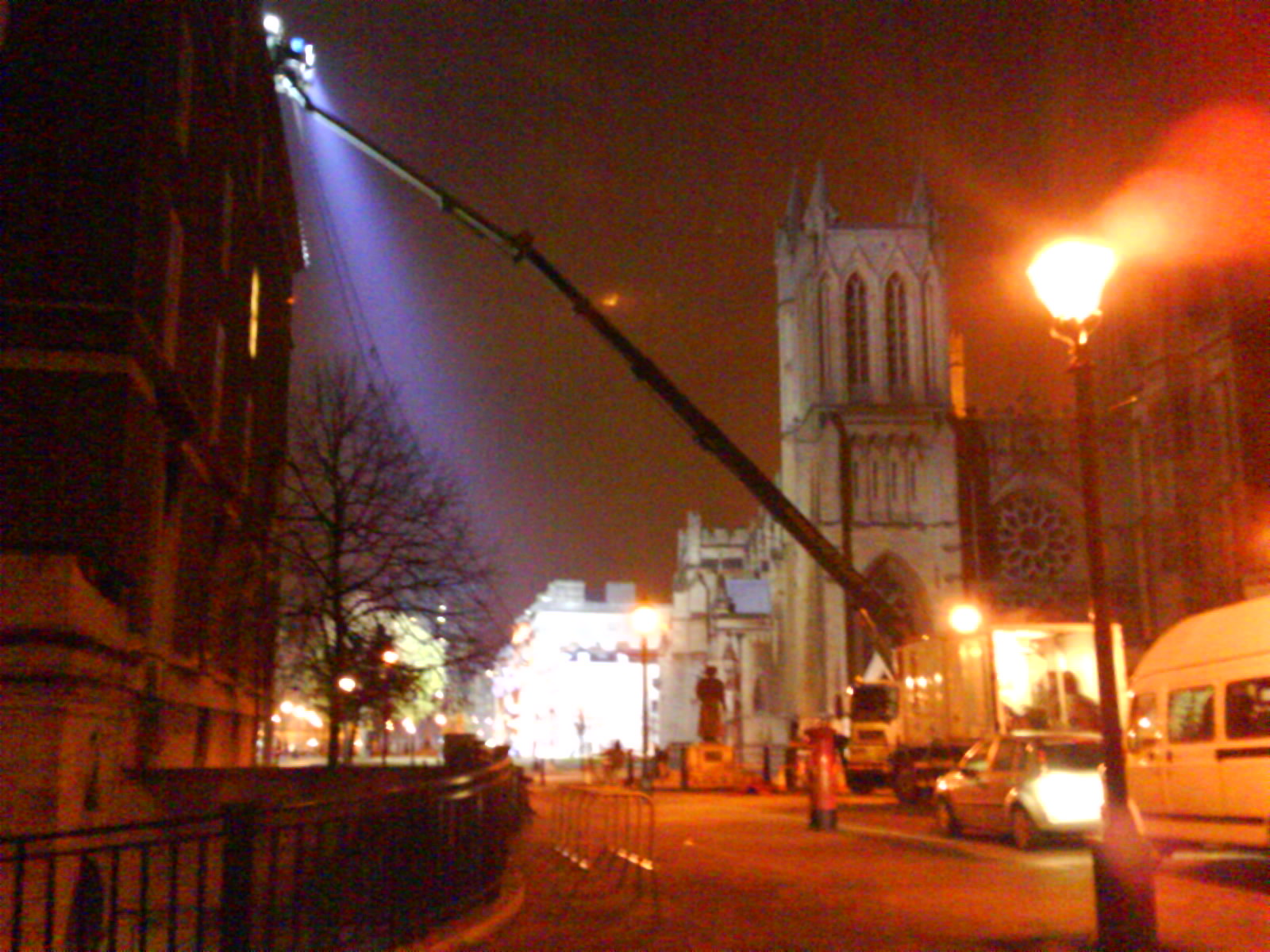 Arri lights mounted on a Bronto Access Platform from Nationwide Access after finishing a day's shoot of Being Human. (College Green, Bristol, UK)